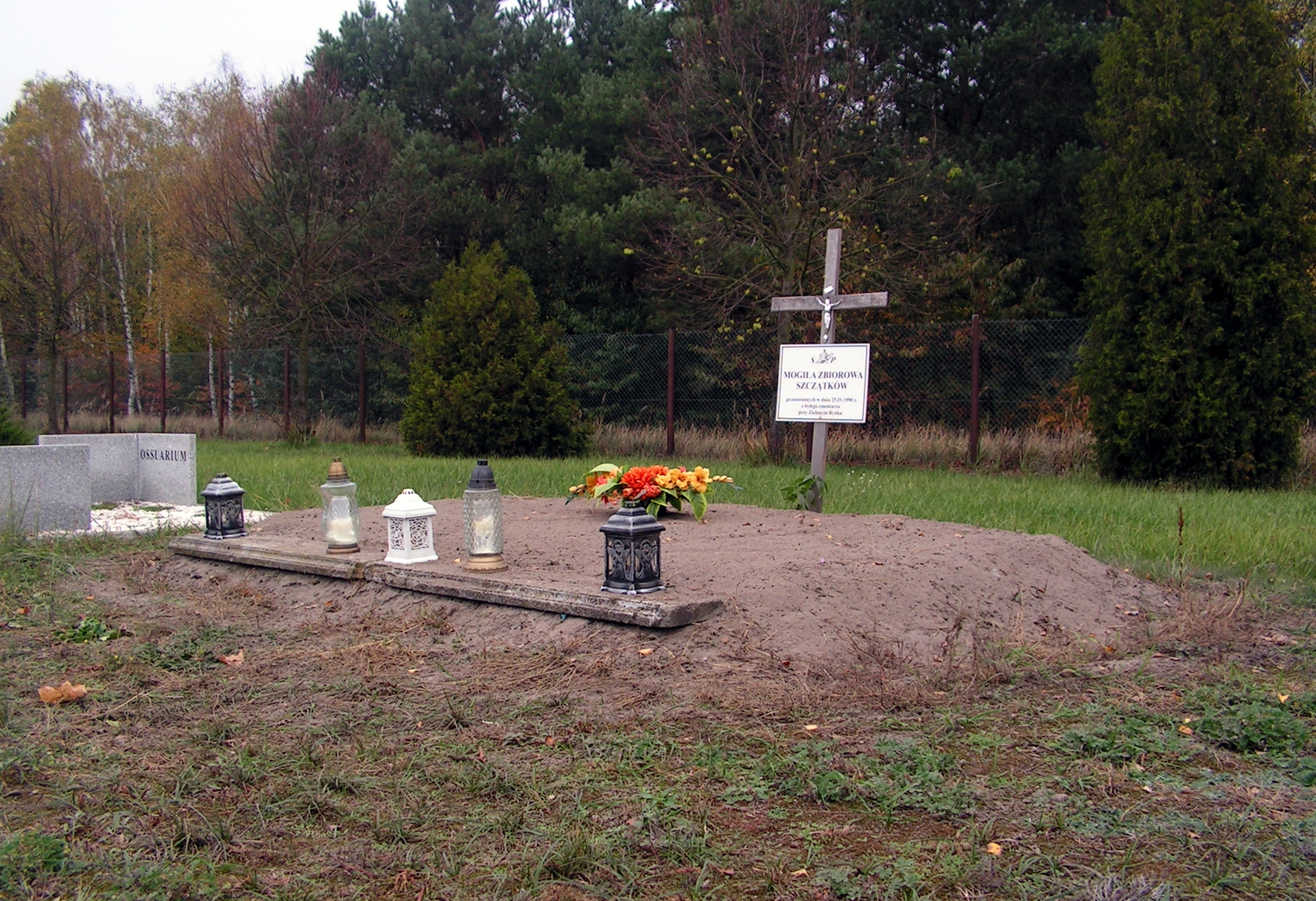 Mass grave with remains moved from former cemetery at Green Market Square in Włocławek to communal cemetery in Pińczata in 1990, 2008 and 2019 year.